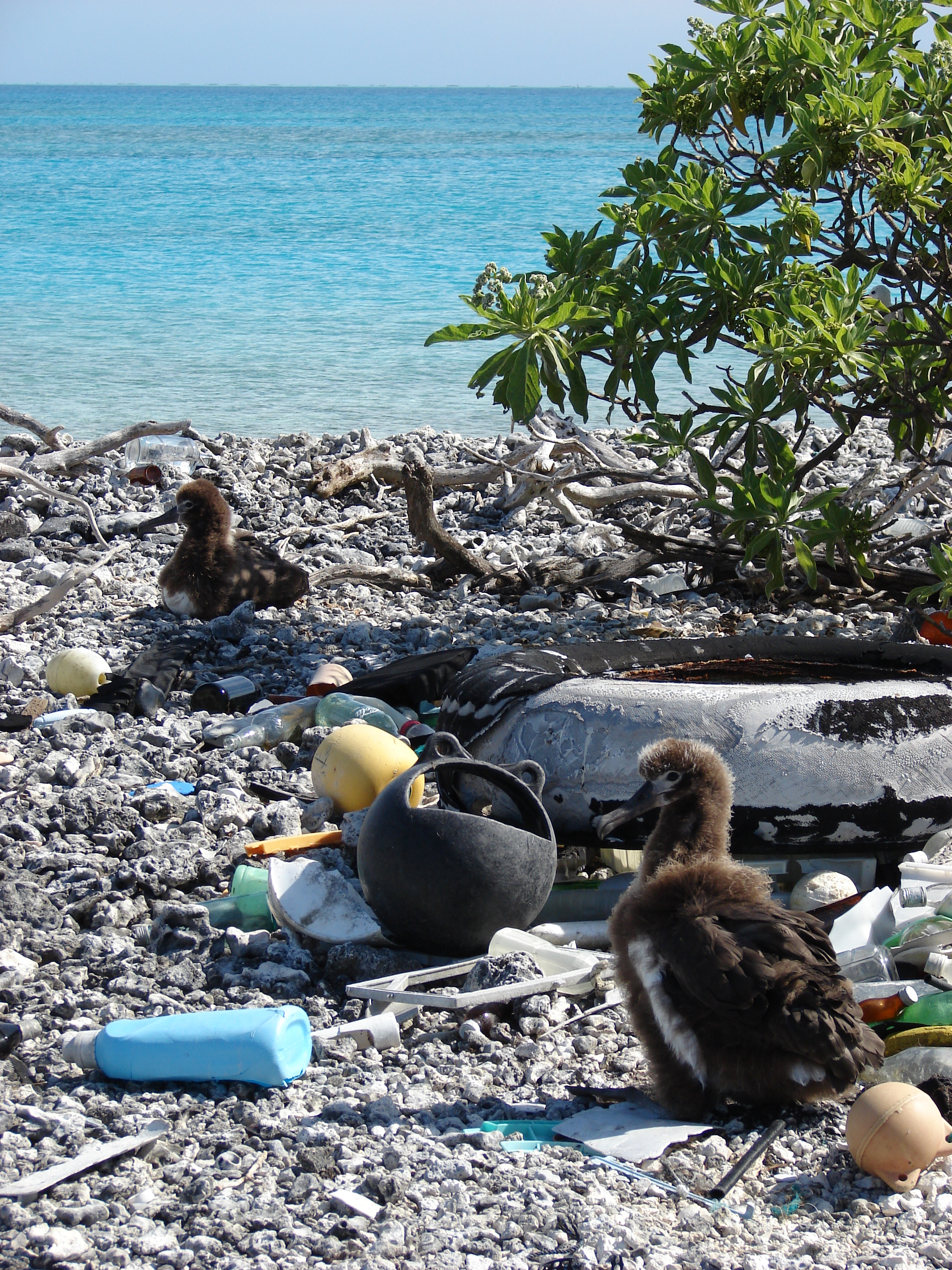 Tournefortia argentea (habit with Laysan albatross chicks and marine debris). Location: Midway Atoll, Spit Island